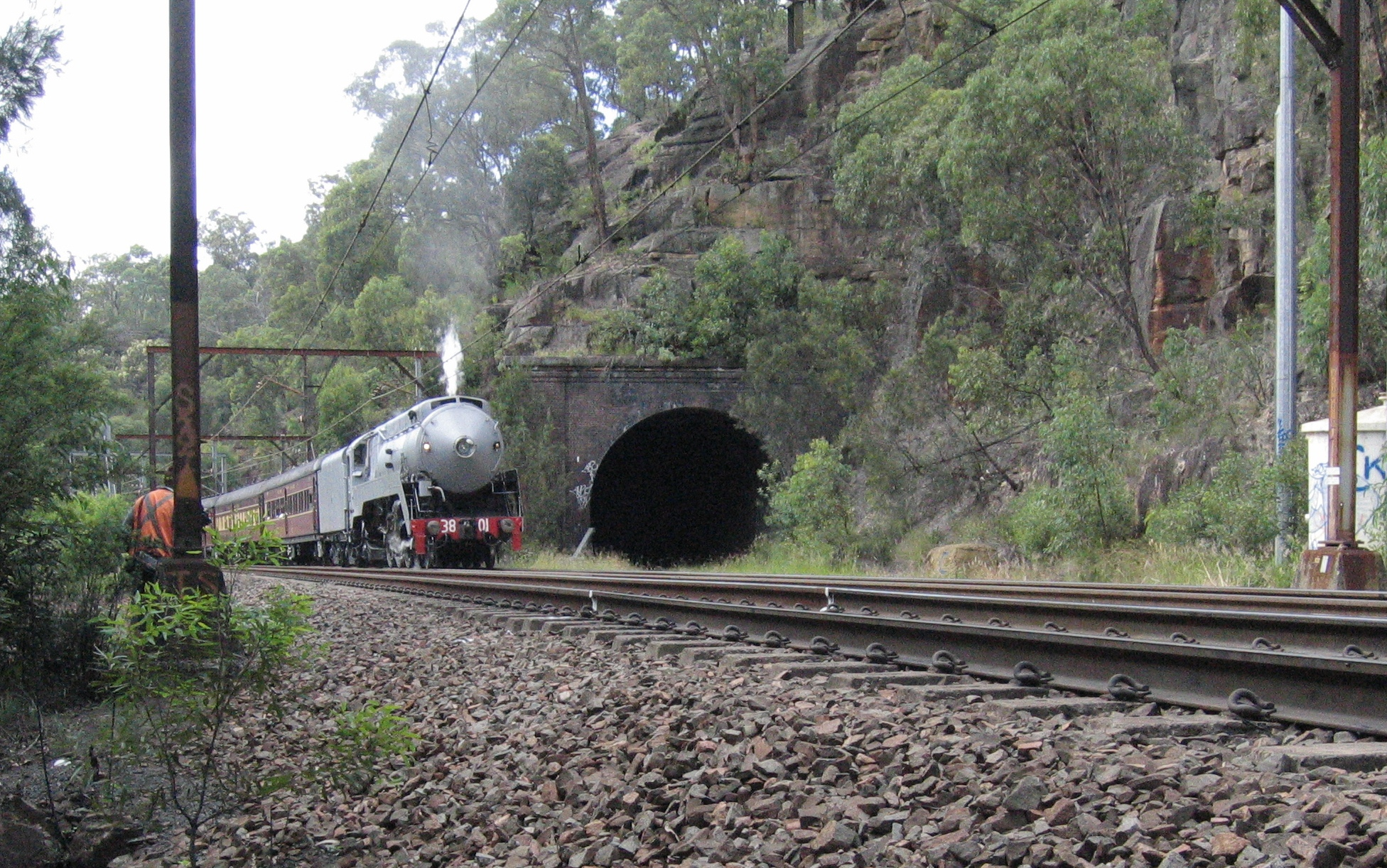 The restored Pacific 38 class engine 3801 pulls a train of tourists up past the southern entrance of the abandoned "Boronia" No. 5 tunnel on the Cowan Bank, N.S.W. Photographed 18th March, 2006.